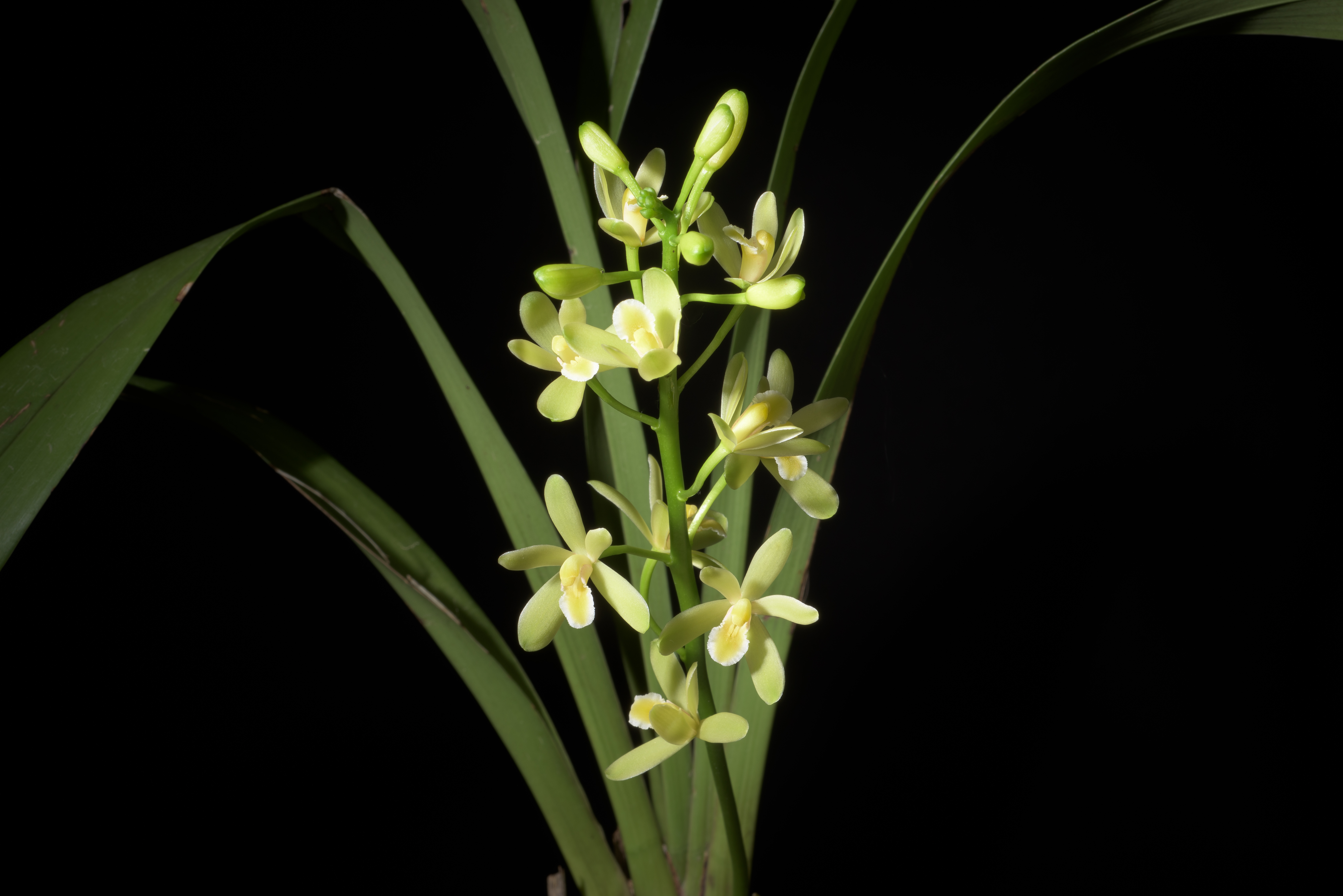 SECTION Floribundum Seth & Cribb 1984 Distribution: W. Malesia to Philippines (Palawan) 42 BOR JAW LSI MLY PHI SUM Found in Asia-Tropical Malesia Borneo, Jawa, Malaya, Philippines, Sumatera Heterotypic Synonyms: Cymbidium variciferum Rchb.f., Bonplandia (Hannover) 4: 324 (1856). Cymbidium sanguinolentum Teijsm. & Binn., Natuurk. Tijdschr. Ned.-Indië 24: 318 (1862). Cymbidium sanguineum Teijsm. & Binn., Cat. Hort. Bot. Bogor.: 51 (1866), orth. var. Cymbidium pulchellum Schltr., Repert. Spec. Nov. Regni Veg. 8: 570 (1910), nom. illeg. Cymbidium chloranthum subsp. palawanense Lubag-Arquiza, Orchid Rev. 114: 264 (2006).